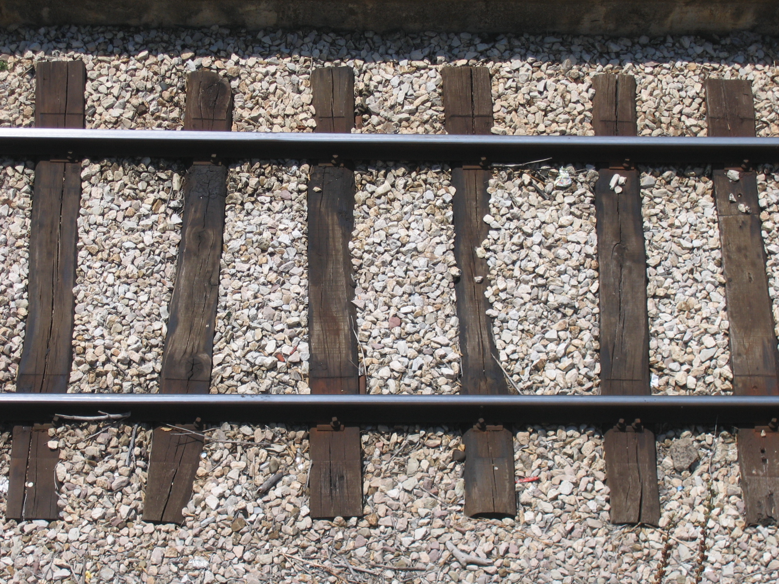 Railways, view from above